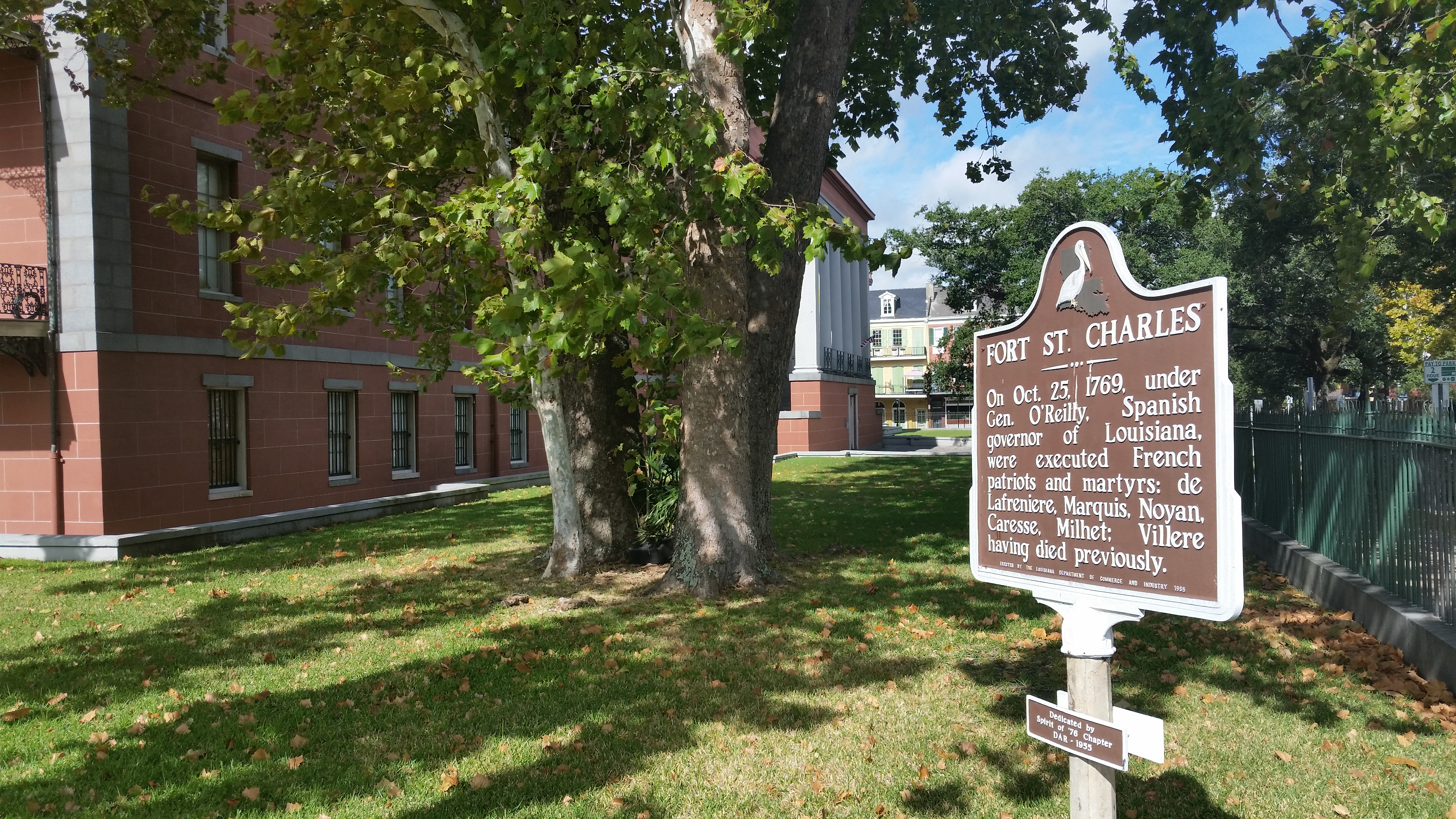 LA uprising 1768